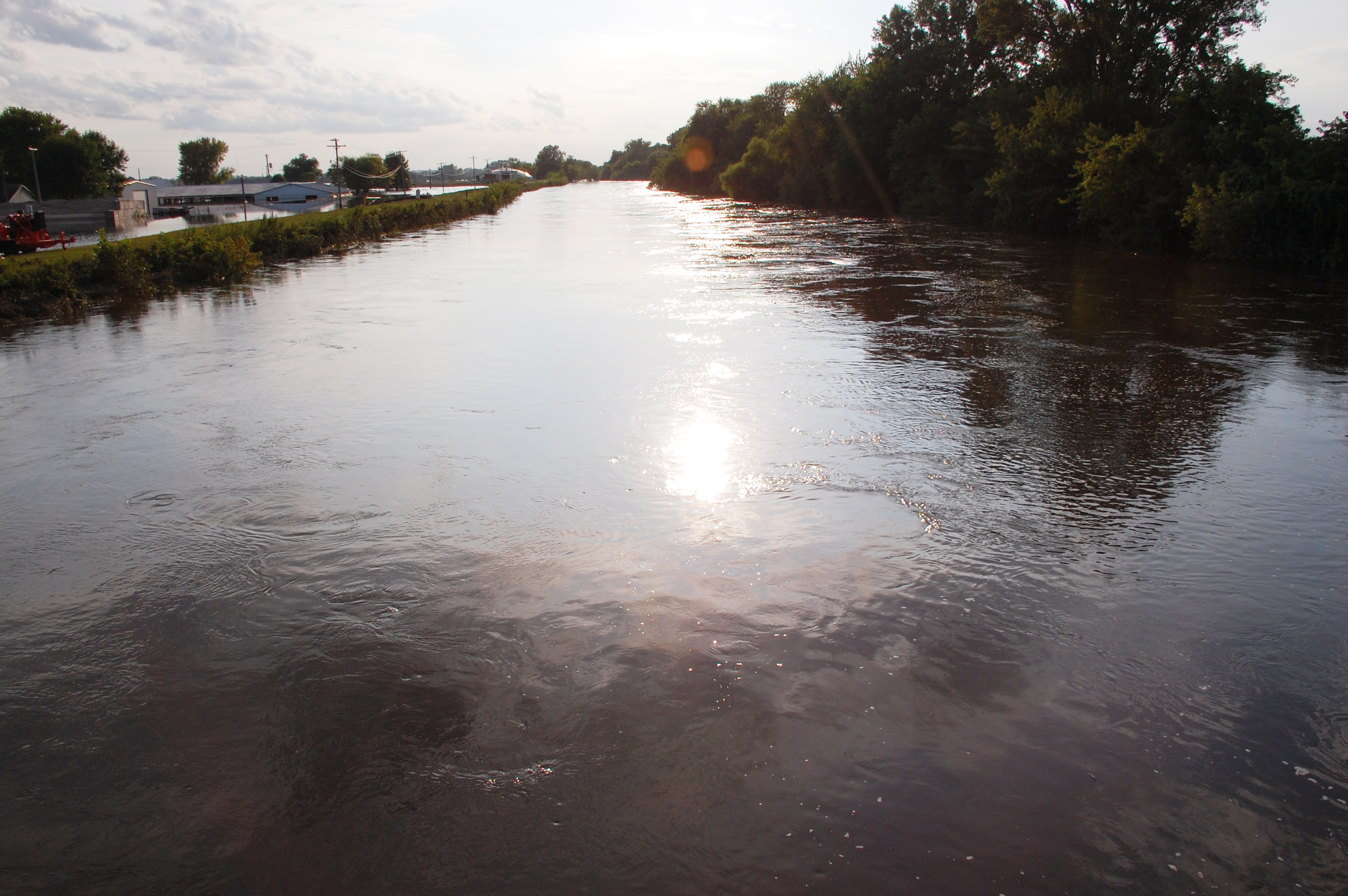 The South Skunk River at Colfax, Iowa, USA (August 16, 2010): The South Skunk River at Colfax is finally receding after record rainfall and flooding in this central Iowa town. FEMA is working with state and other federal agencies to assist residents and businesses affected by recent flooding.